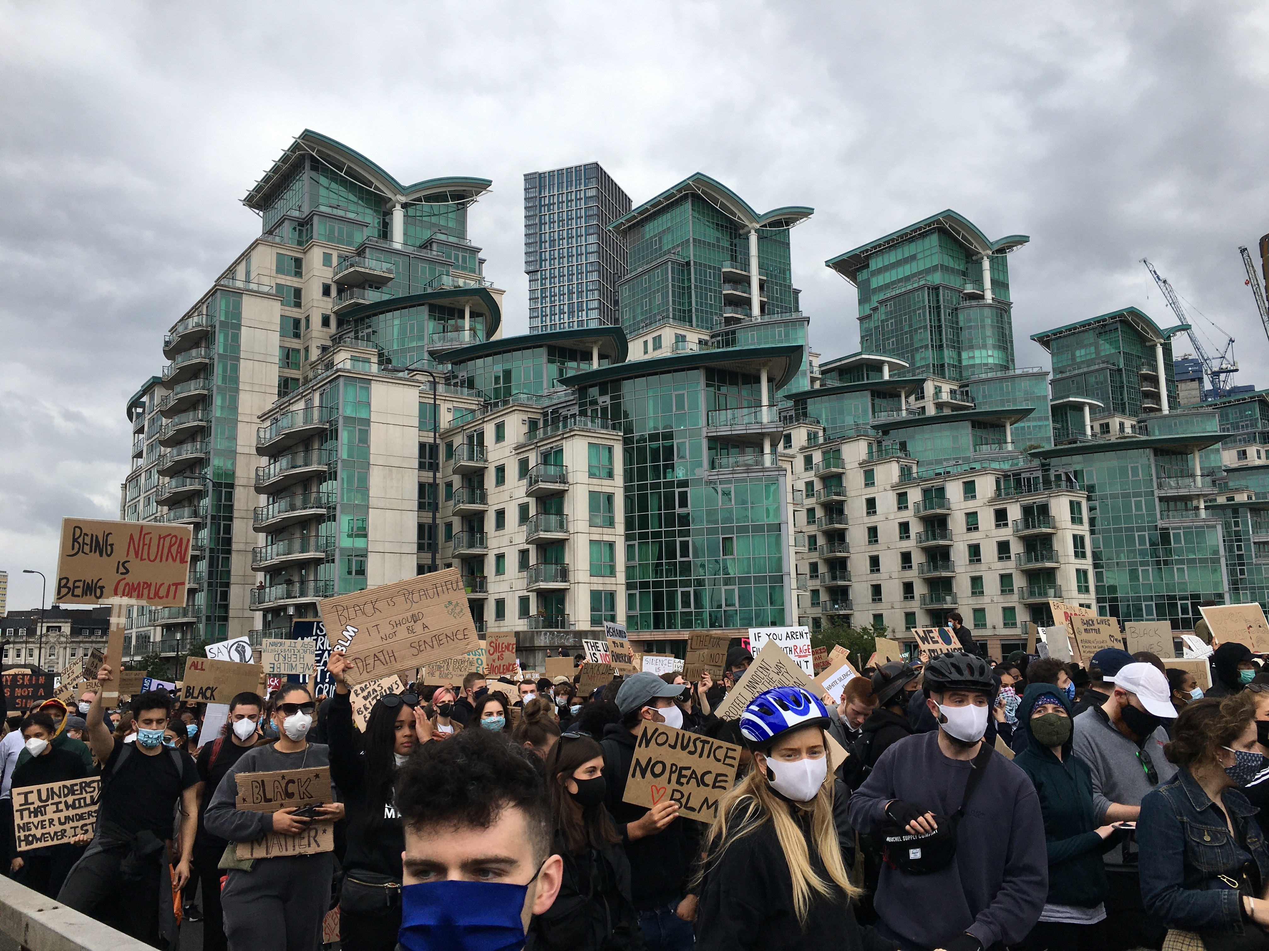 Protestors for Black Lives Matter marching from US Embassy in London over Vauxhall Bridge to Westminster, June 2020.